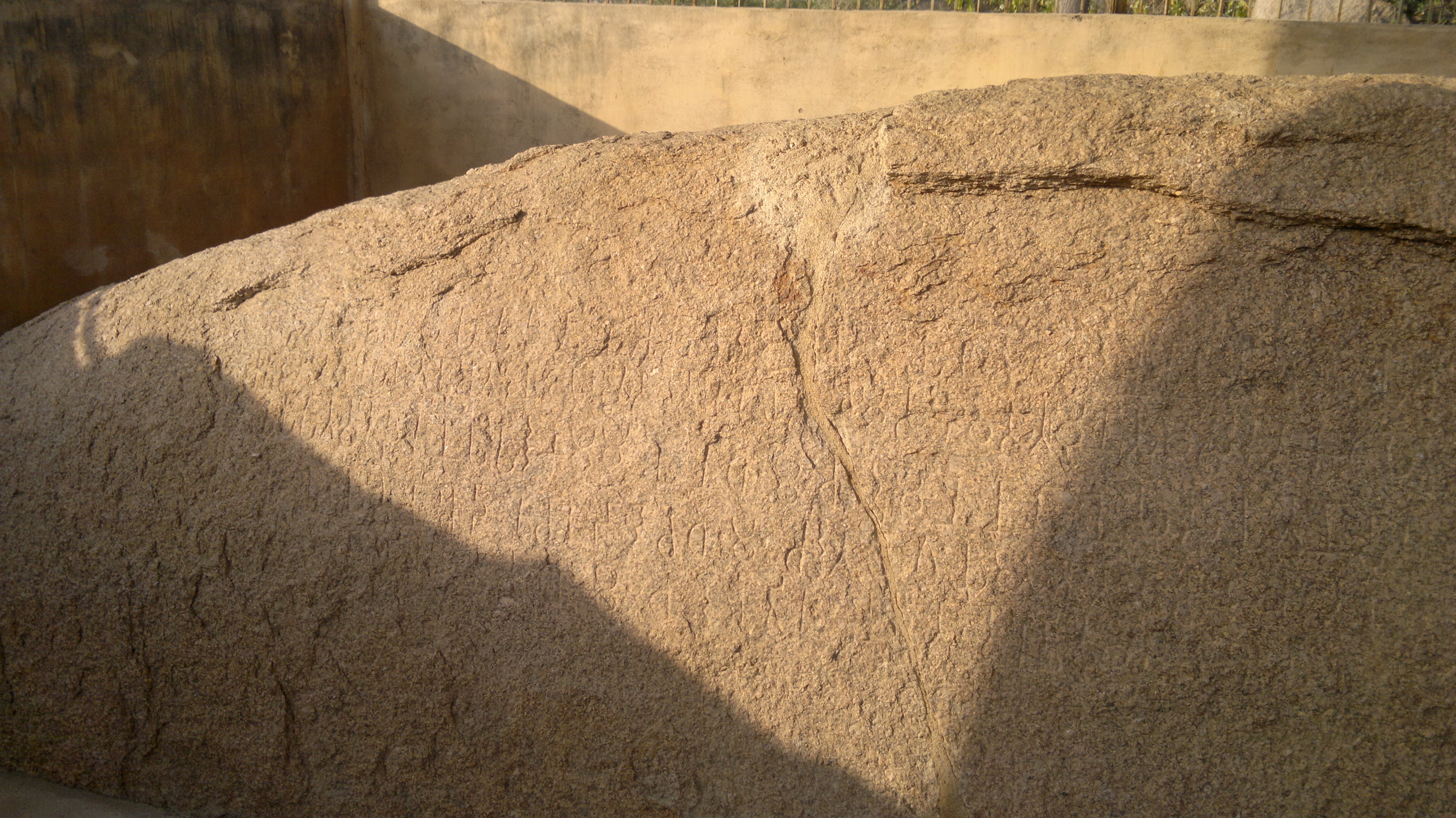 The Closeup Photograph of Adshoka's Minor Rock Edict at Gujarra, Dist - Datia, State - Madhya Pradesh, India.